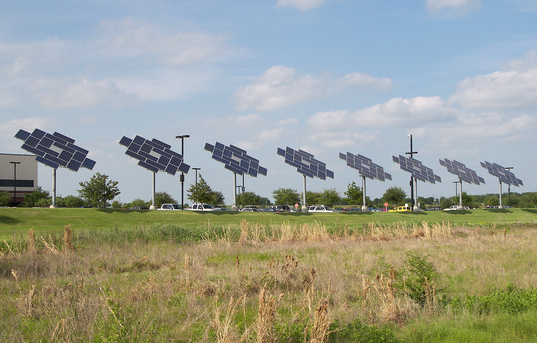 The Applied Materials 24.8 kilowatt solar array in Austin, Texas, United States.